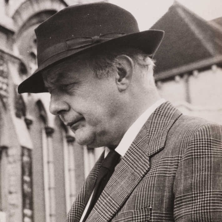 Photograph of Sir John Betjeman (1906-1984).